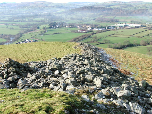 Caer Drewyn., near to Clawdd Poncen, Denbighshire/Sir Ddinbych, Wales. Part of the defensive wall at Caer Drewyn Iron Age hill fort near Corwen.